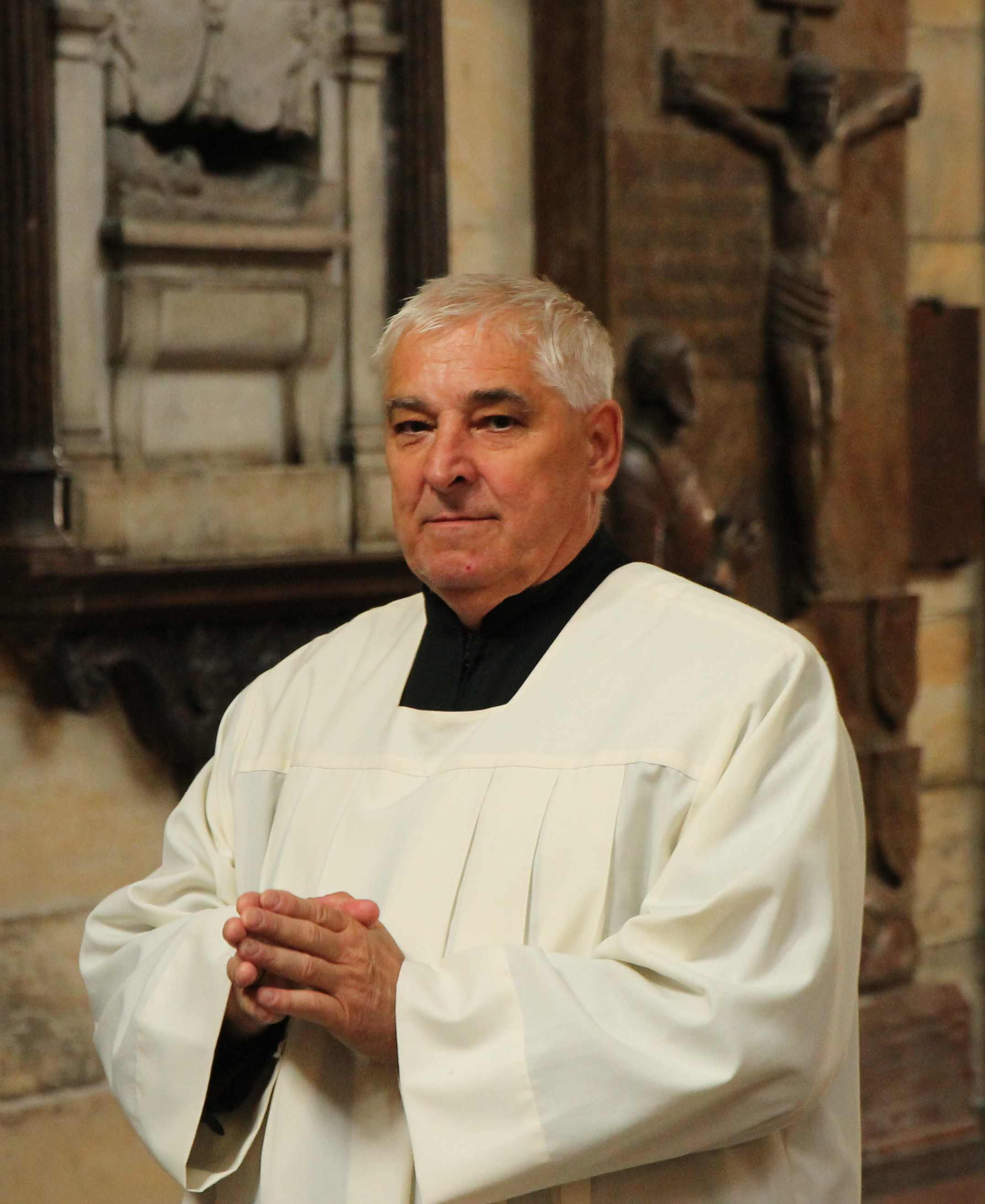 Michael Karas (Lahvoun) in the liturgical procession before the episcopal ordination of Zdenek Wasserbauer held on May 19th, 2018, Prague